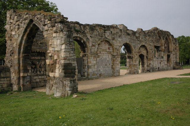 St Oswald's Priory, Gloucester, near to Gloucester, Gloucestershire, Great Britain. This is all that remains of St Oswald's Anglo-Saxon Minster and Medieval Priory. The church was originally built around the year 900 by Æthelflæd, the daughter of Alfred the Great, and her husband Æthelred. The priory was dissolved in 1537 at the time of the reformation.